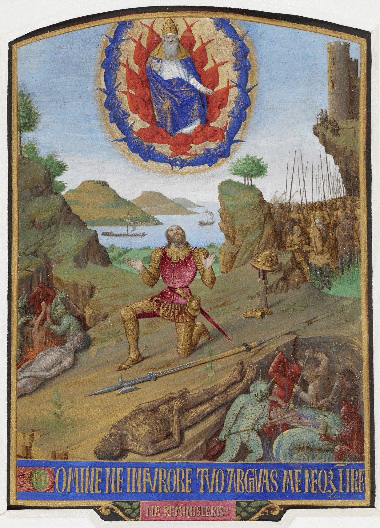 David, in armour, kneeling in penitence before God encircled by cherubim. In the foreground, a corpse with devils torturing souls. Psalm 6: 'Domine, ne in furore', in gold capitals on a blue ground, with the monogram 'EC' of Étienne Chevalier.